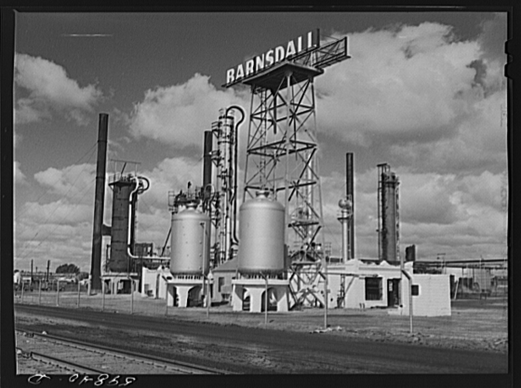 Barnsdall Refinery at Broadway and 29th Street in Wichita Kansas taken in October 1941 by Marion Post Wolcott for the US Farm Security Administration. Library of Congress Call Number: LC-USF34- 059840-D [P&P] LOT 117